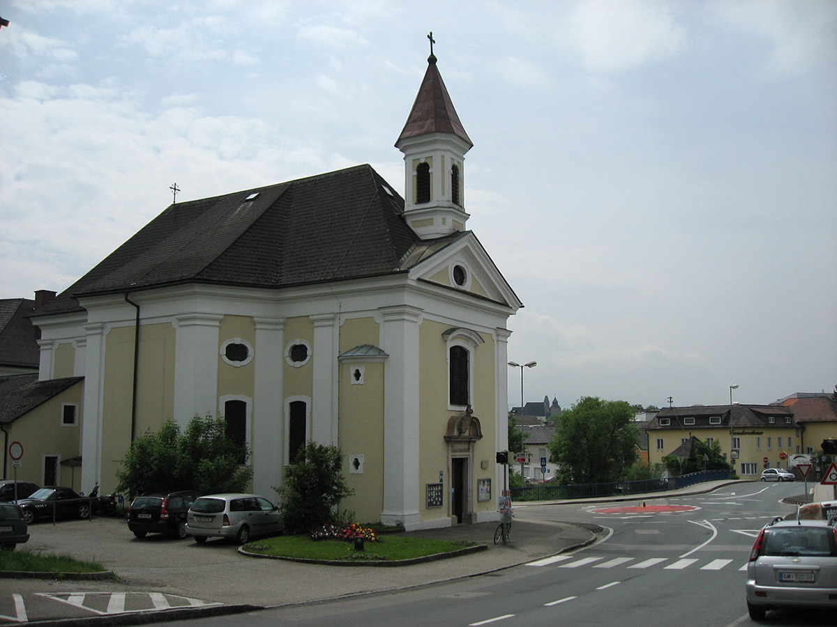 Sights of Vöcklabruck in Upper Austria, here the Dörflkirche, this baroque style churche was built in 1688 by architect Carlo Antonio Carlone, with frescos from the painter Carlo Antonio Bussi; to the right is the bridge over the Vöckla (Vöckla Brücke) and in the background the church of Schöndorf can be seen.